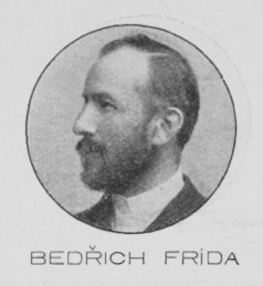 Portrait of Bedřich Frida (1855-1918), Czech writer and translator.